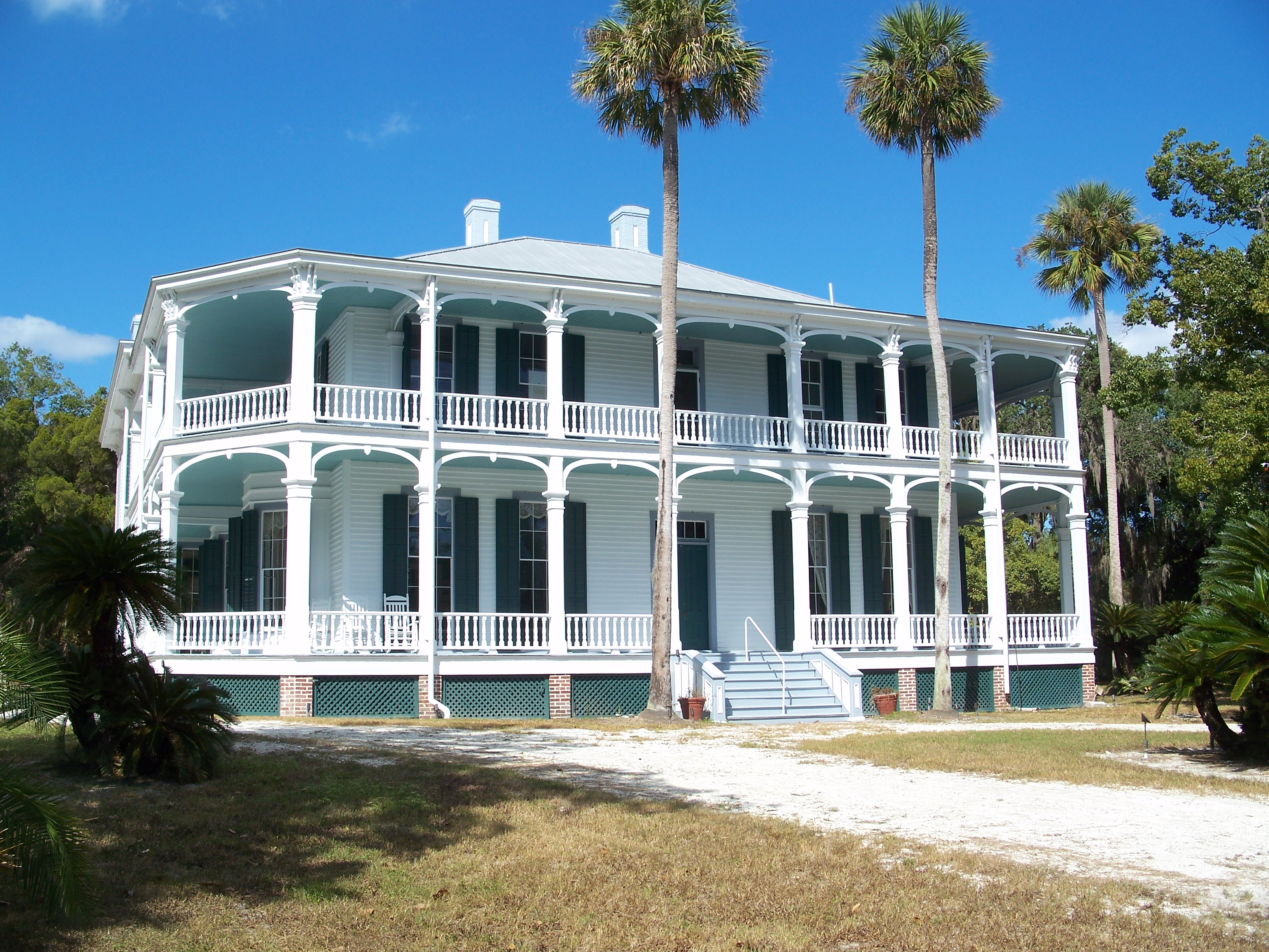 DeBary Hall in DeBary Mansion Historic Site, in DeBary, Florida